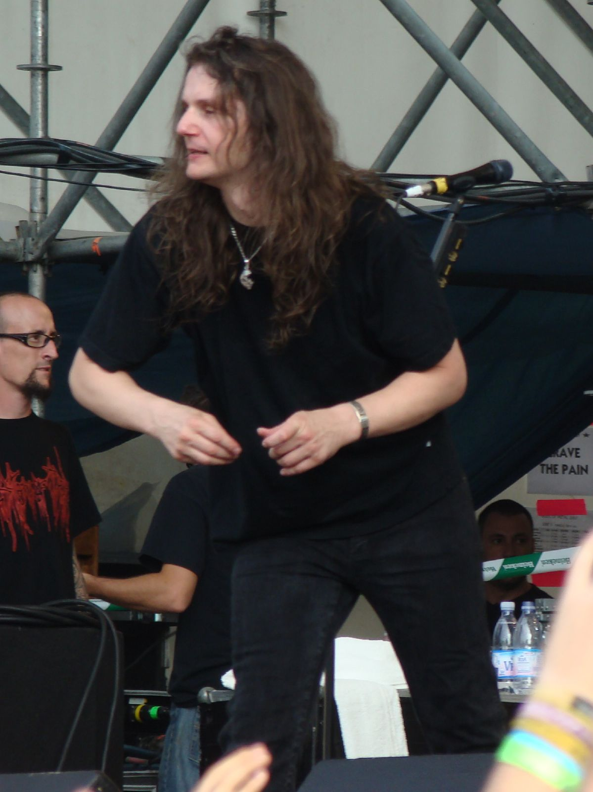 Andre Olbrich, a guitarist of German Heavy Metal band Blind Guardian